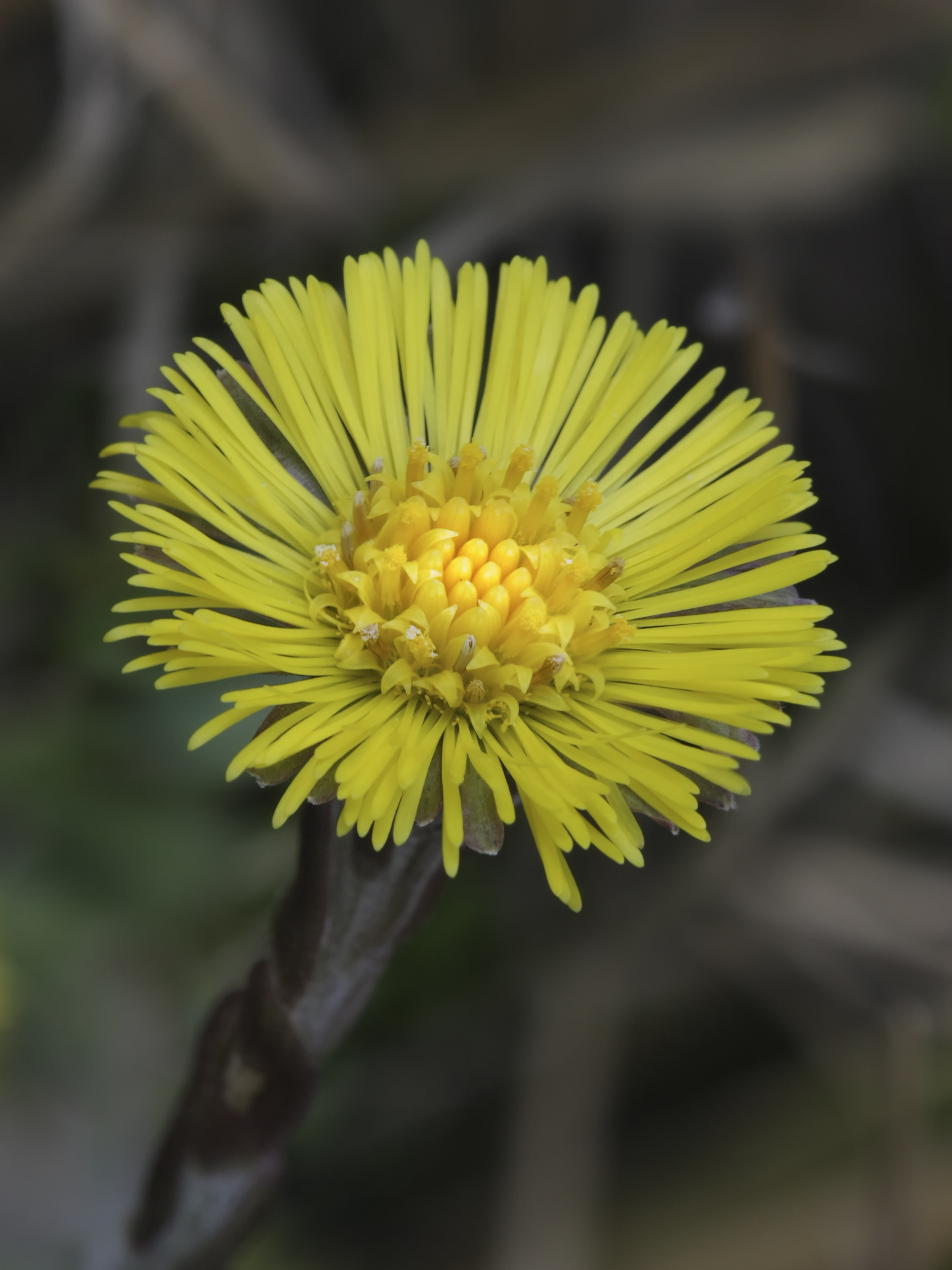 Coltsfoot (Tussilago farfara) is a plant in the family Asteraceae.